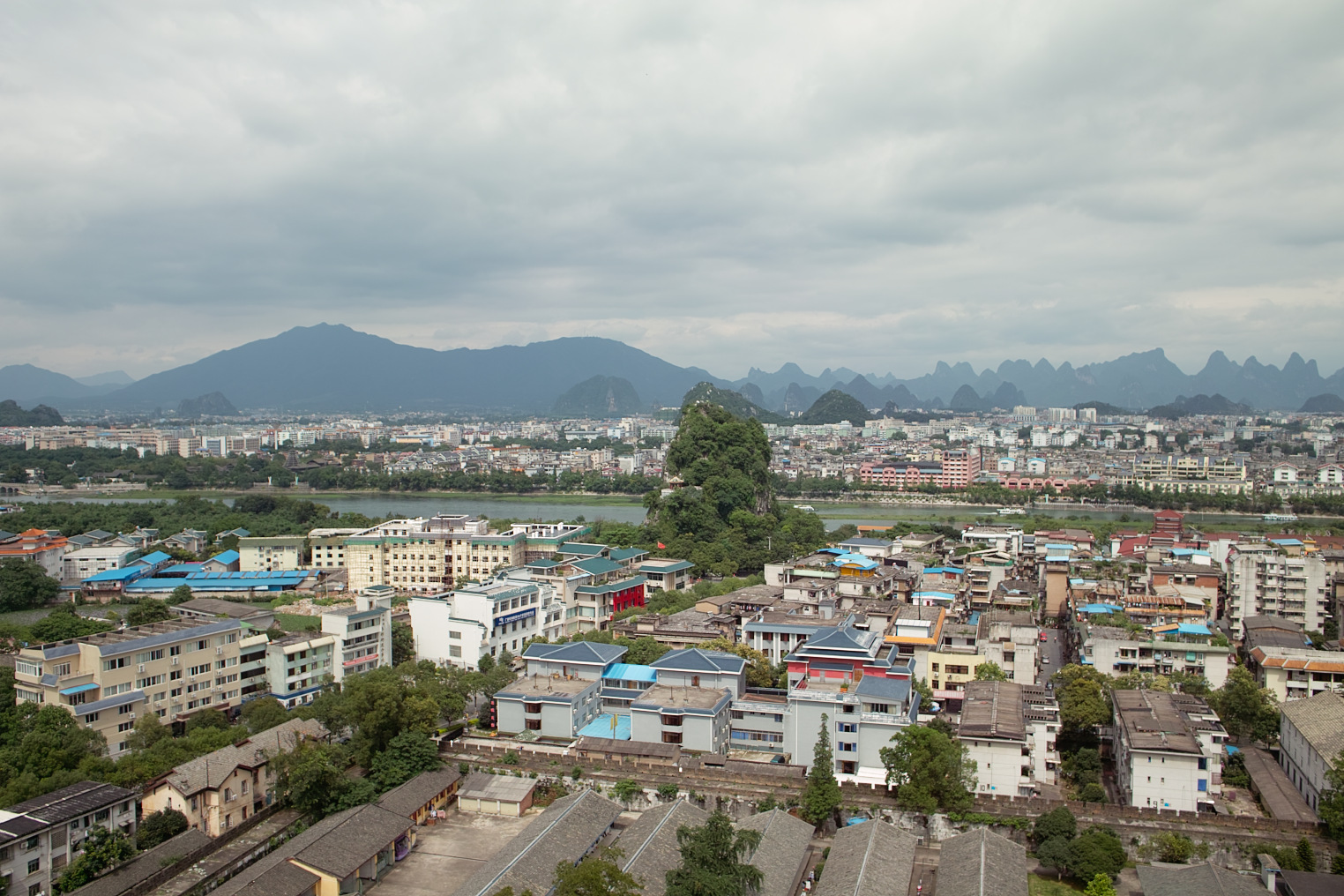 Guilin Scene, from Duxiu Peak